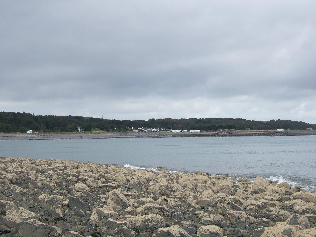 Chapel Rossan Bay looking across to Ardwell village and caravan site. Chapel Rossan Bay taken from Chapel Rossan and looking across to Ardwell village, about 10 miles South of Stranraer.